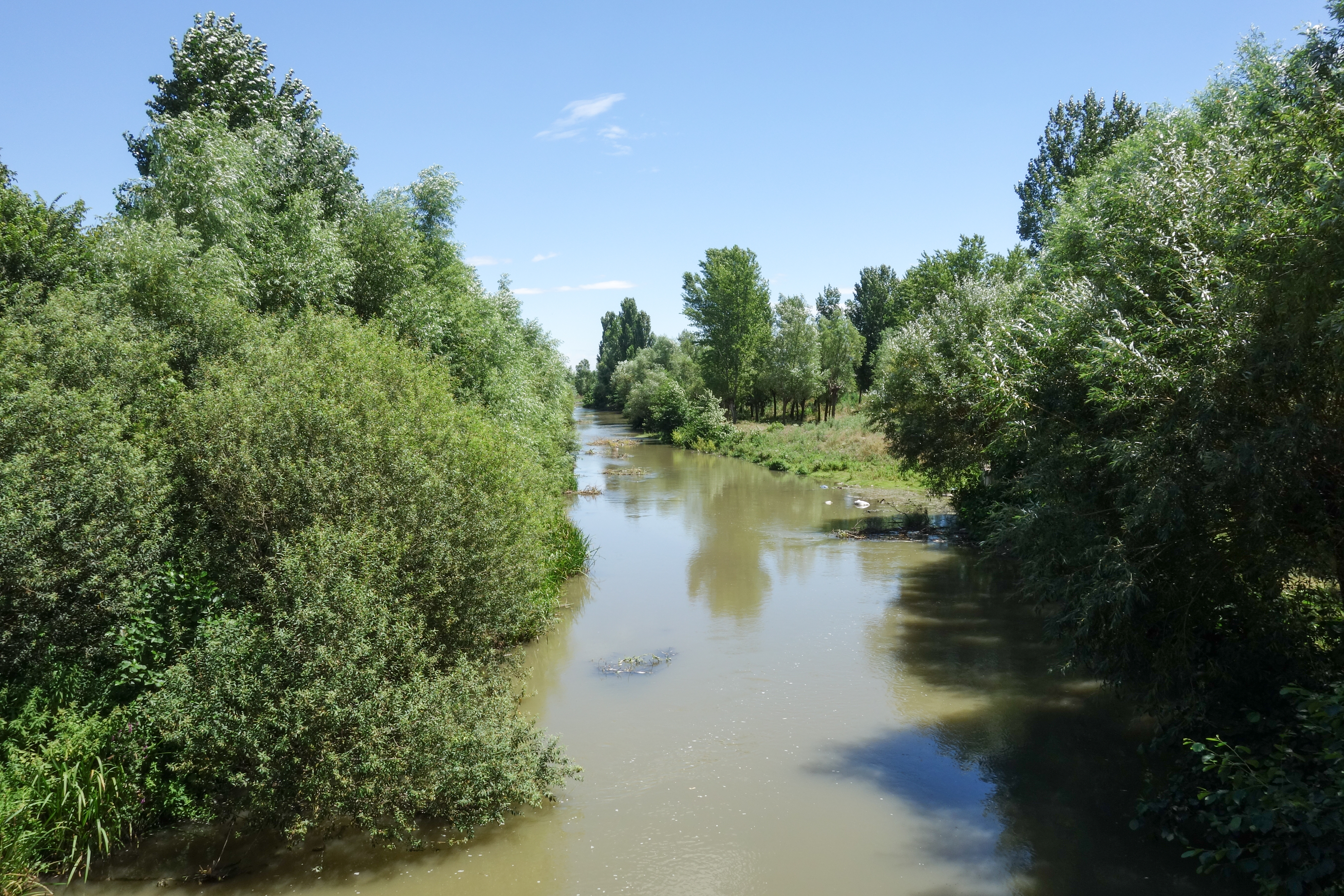 Suramula River in Kvenatkotsa, Shida Kartli, Georgia